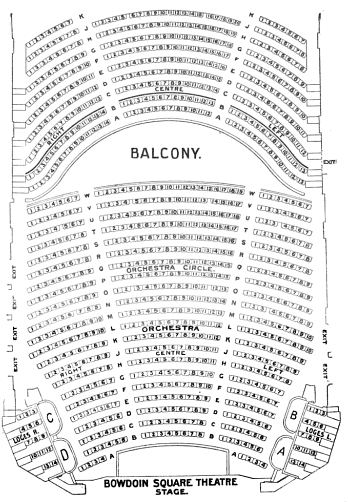 Seating chart for Bowdoin Square Theatre, Boston, Massachusetts, USA